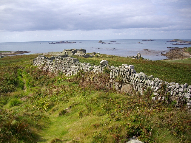 Deer Park Wall and Cottage, South Hill, Samson Samson was depopulated in 1855. Augustus Smith had a wall erected around 3.5 hectares of the northern slopes of South Hill to create a deer park. By 1860 the forest loving animals had escaped to the nearby wooded island of Tresco.